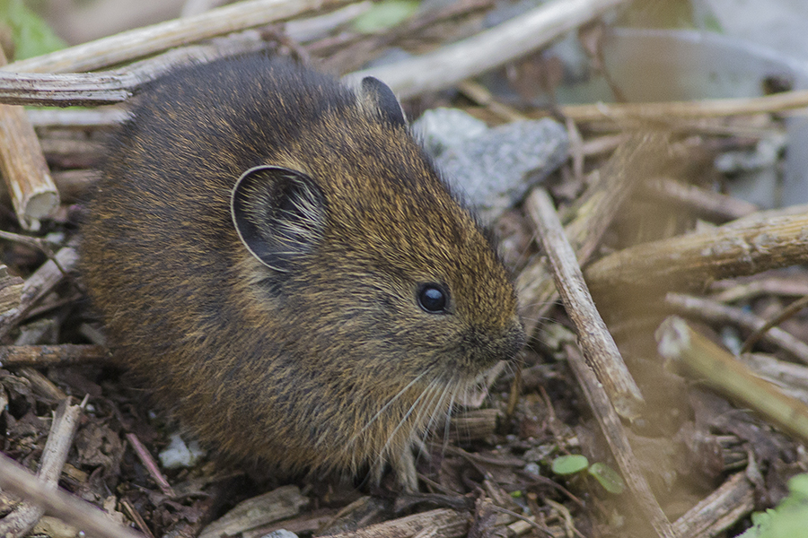 The species Plateau Pika had been photographed during the wildlife photography tour to Zuluk (which is at higher altitudes of nearly 9500 feet at east Sikkim of India) and adjacent Pangolakha Wildlife Sanctuary in the month of May 2013.